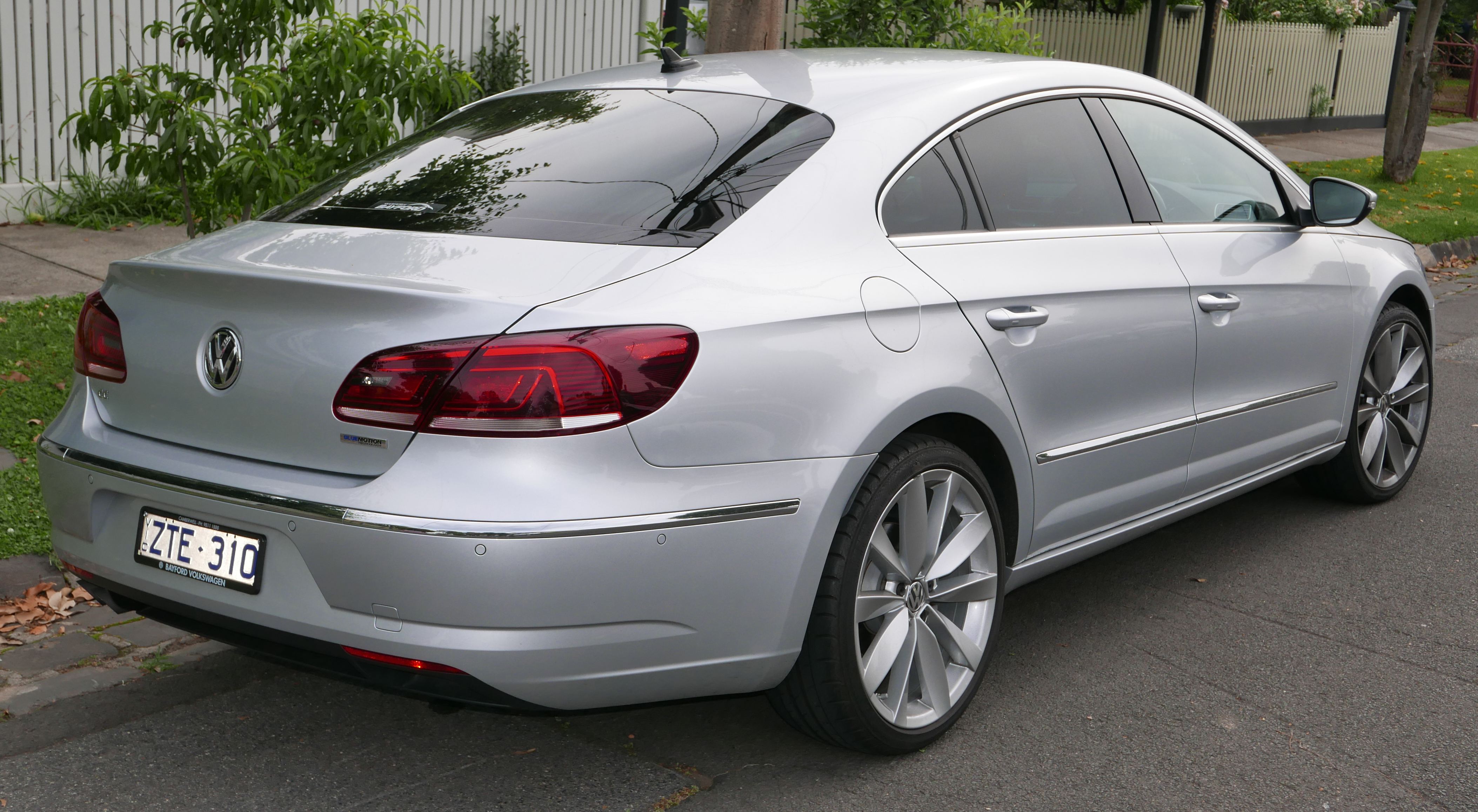 2013 Volkswagen CC (3CC MY13.5) 130TDI sedan. Photographed in Ascot Vale, Victoria, Australia. Vehicle registration enquiry resultsJurisdictionVictoriaRegistrationZTE310Chassis codeWVWZZZ3CZDE563672Engine codeCFG489693Compliance date2013-05Year of manufacture2013